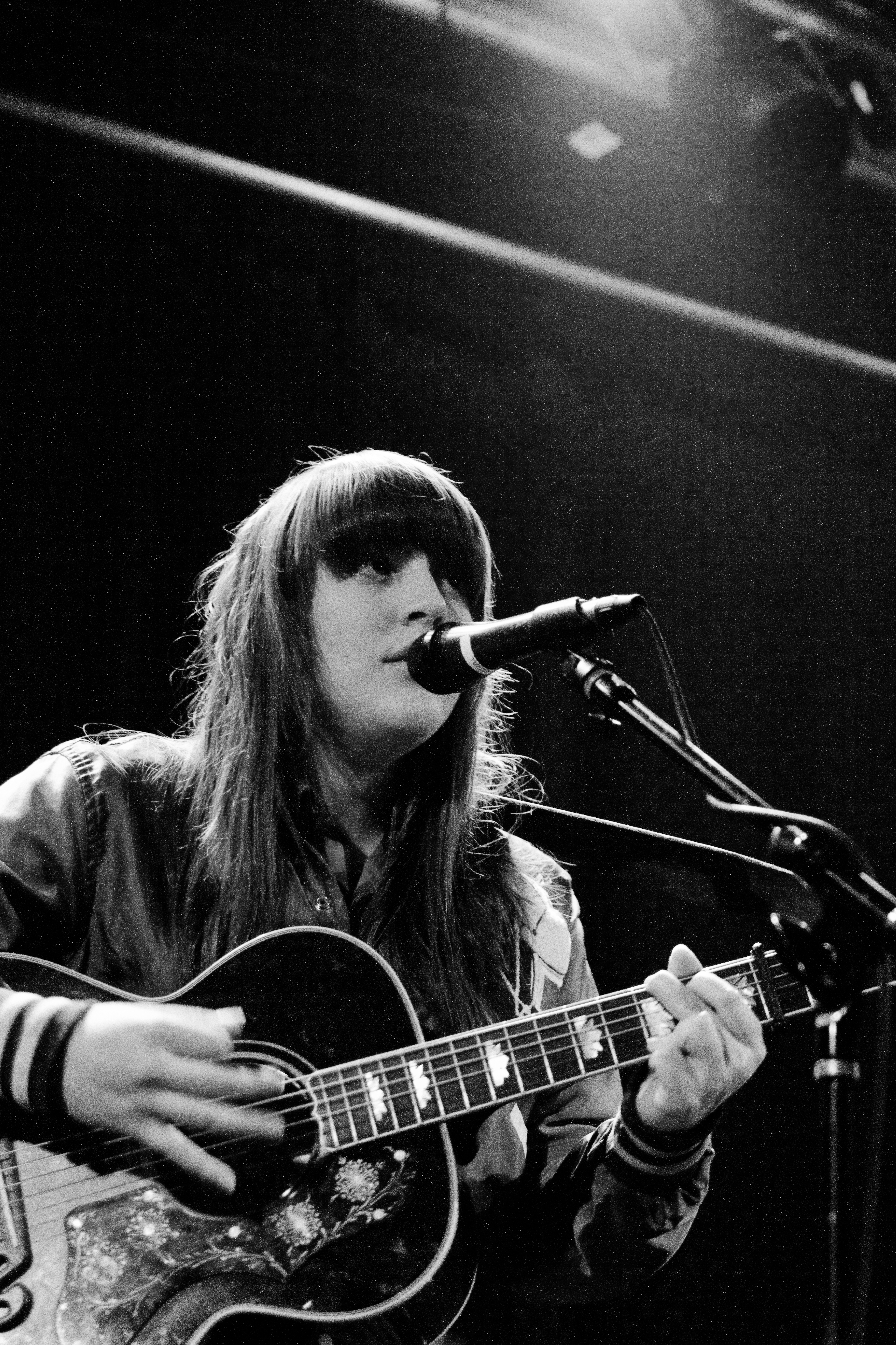 Justin Townes Earle with Caitlin Rose at The Social in downtown Orlando 12.10.2010